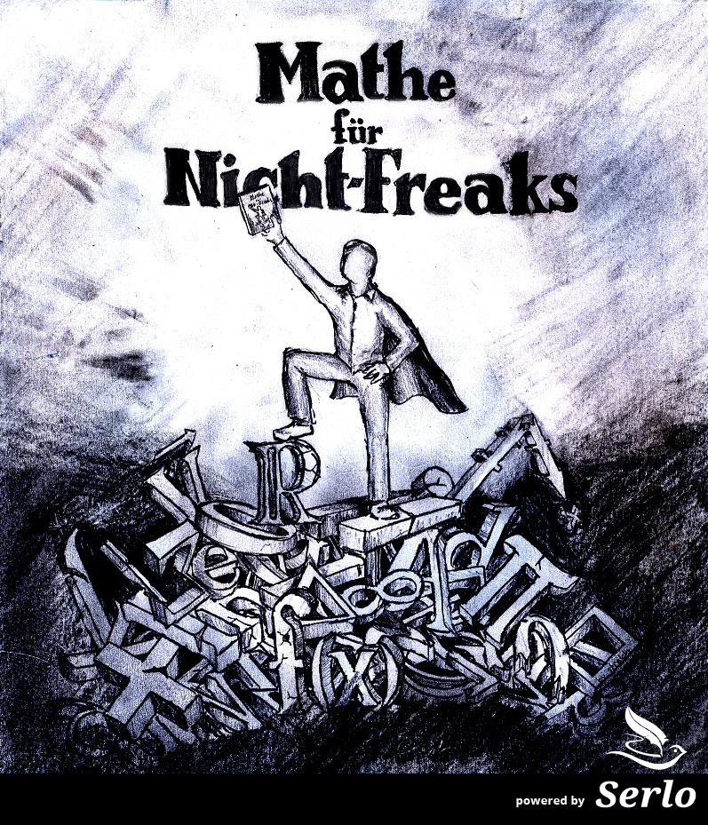 Front page for Wikibook Mathe für Nicht-Freaks